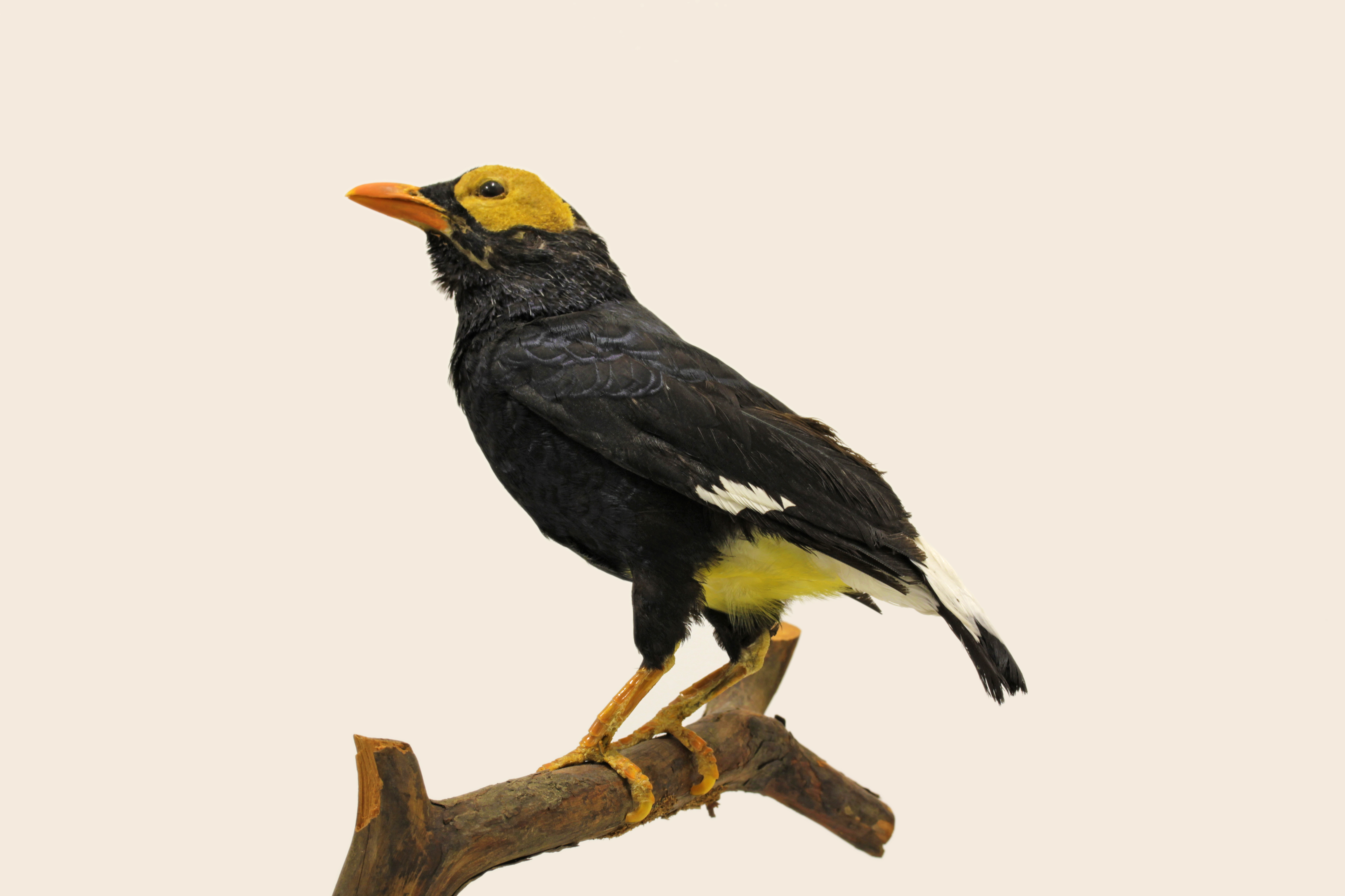 Yellow-faced Myna (Mino dumontii)